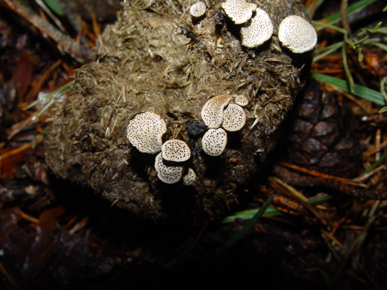 Poronia punctata (L.) Fr. Image location: Braga, Portugal Recognized by sight For more information about this, see the observation page at Mushroom Observer.